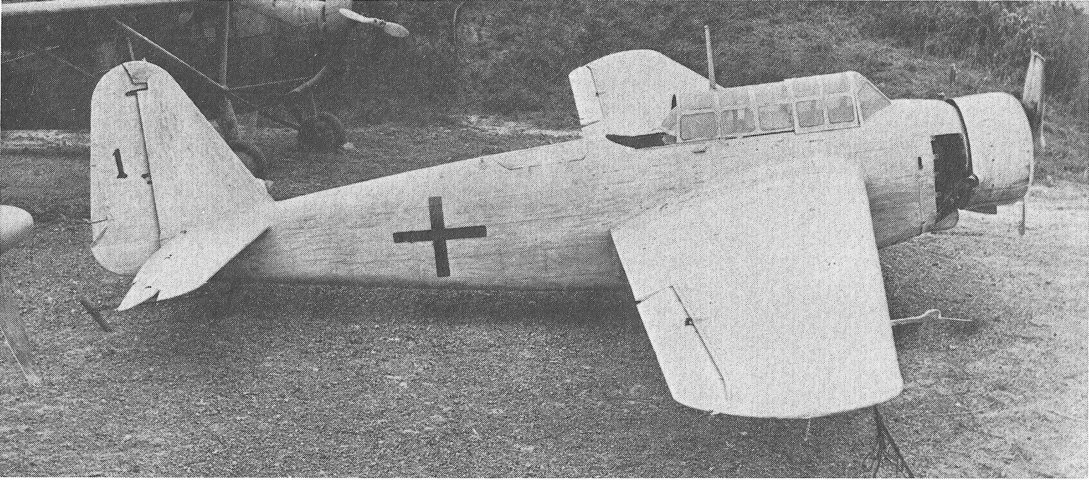 KyÅ«shÅ« K11W Shiragiku in postwar markings of white overall with green crosses. Scanned from The Concise Guide to Axis Aircraft of World War II. Mondey, David. ISBN 1 85152 966 7